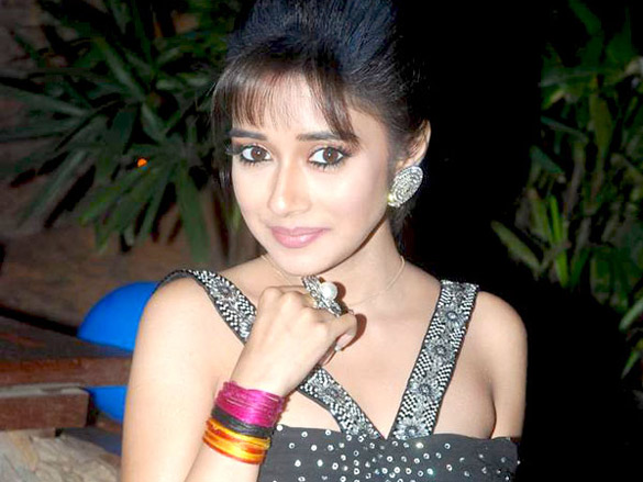 Tina dutta bday bash